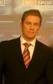 Depicted person: Simon Thomas – television presenter